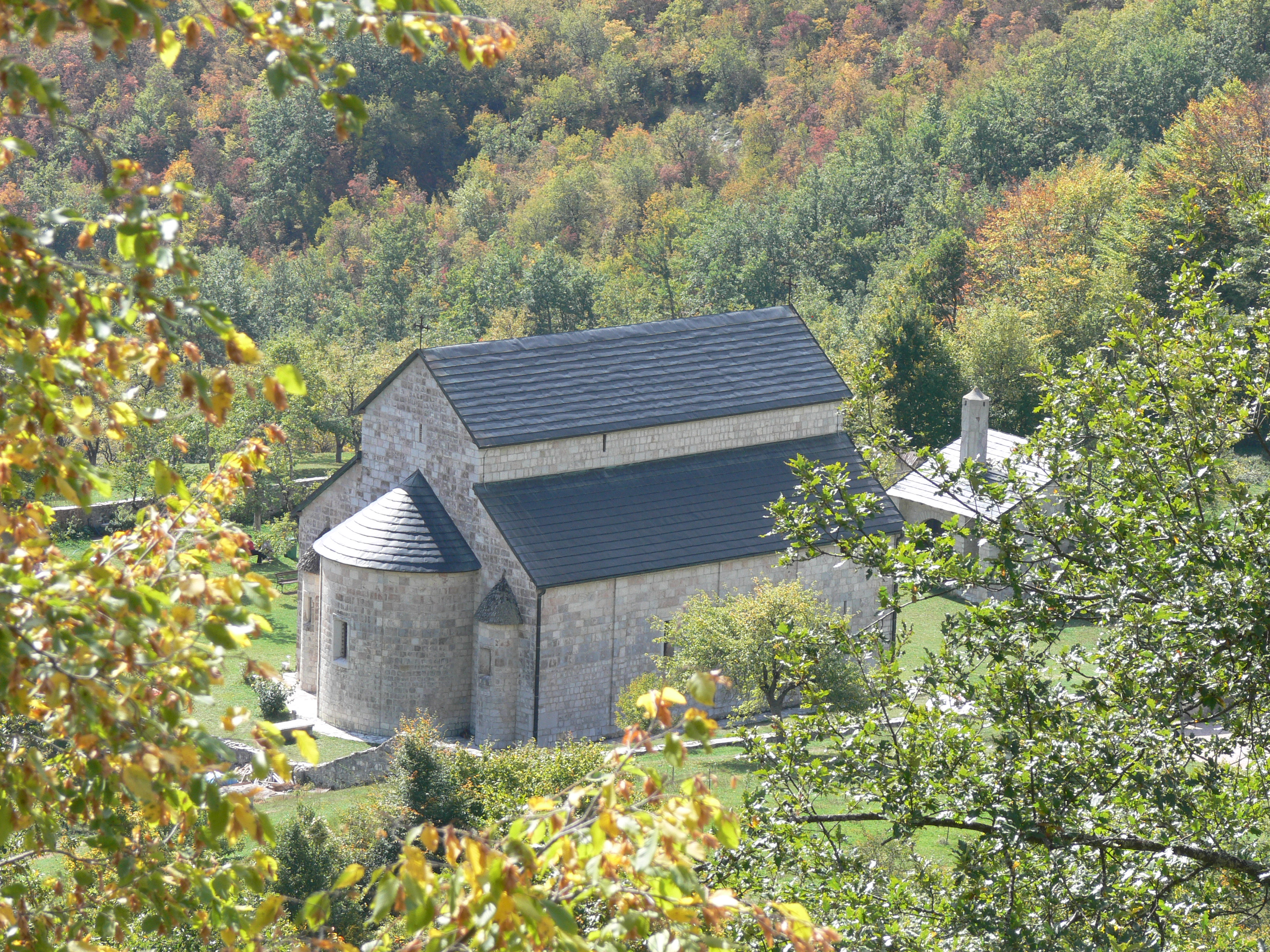 Piva Monastery main church from a distance.